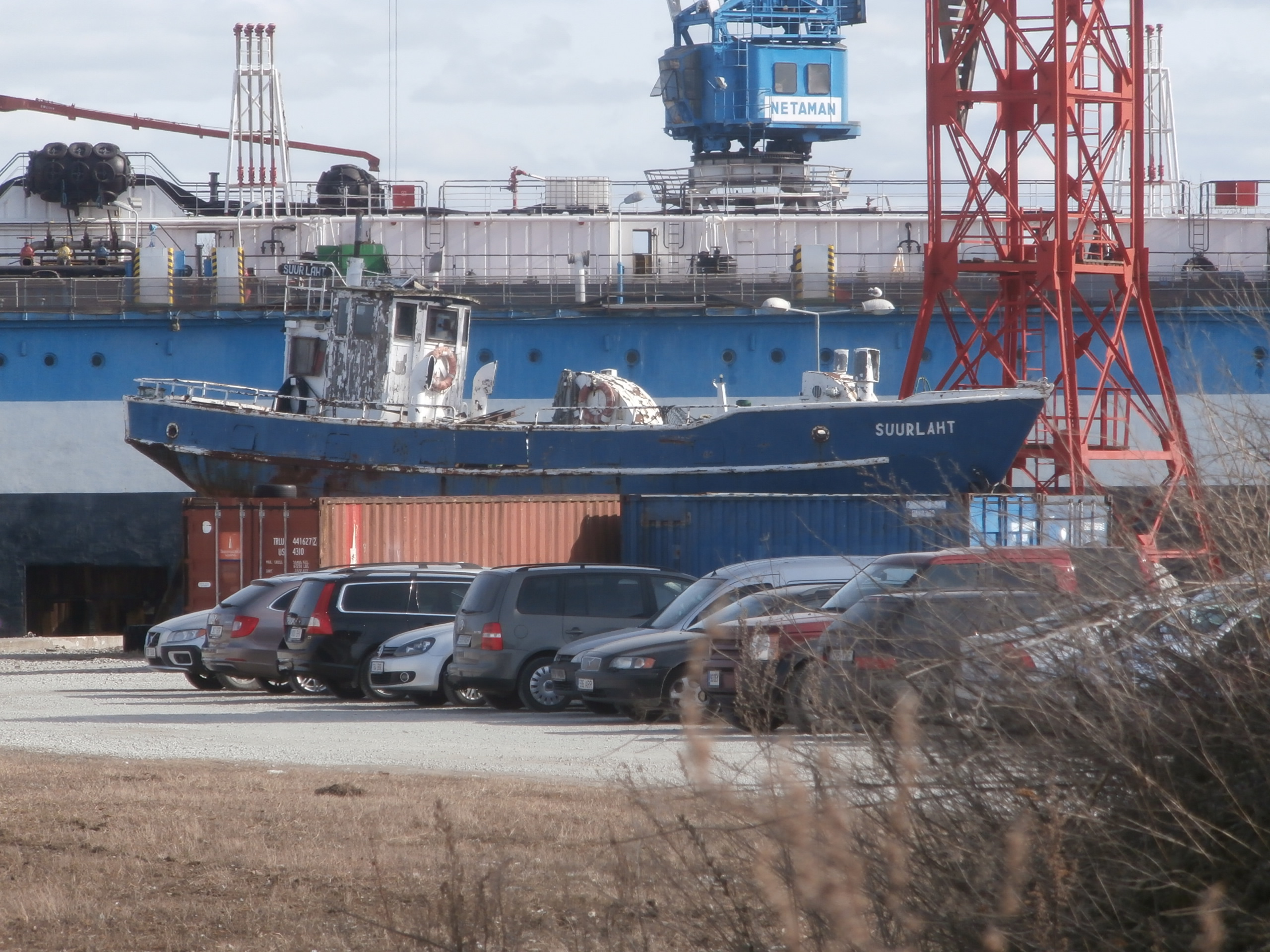 Suurlaht on the Quay in Lahesuu Sadam Tallinn 2 April 2014 (Ophelia in the background)